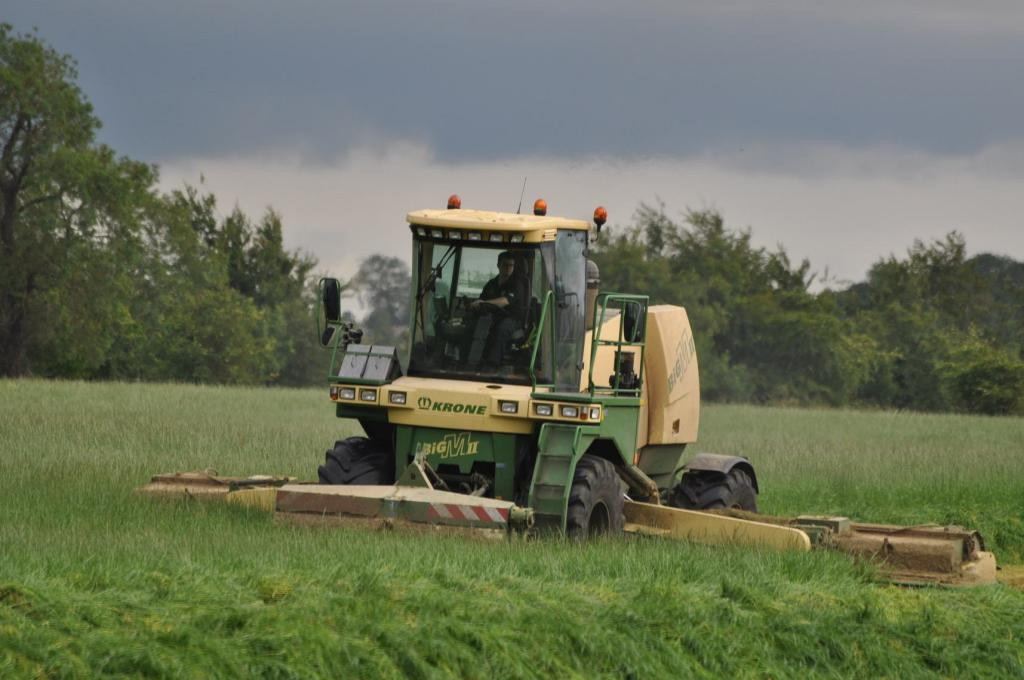 Krone BiG M II self-propelled high-capacity mower-conditioner, second crop (grass) silage harvesting in July 2011, Co. Meath, Ireland. – Machine data: 3 MoCo decks with a total of 9.0–9.72 m cutting width, 245 kW/333 hp max. engine power (ECE R24), 4wd, 40 km/h, 8.06 m transport length, 2.99 m transport width, 3.99 m height, ca. 13.5 t weight.